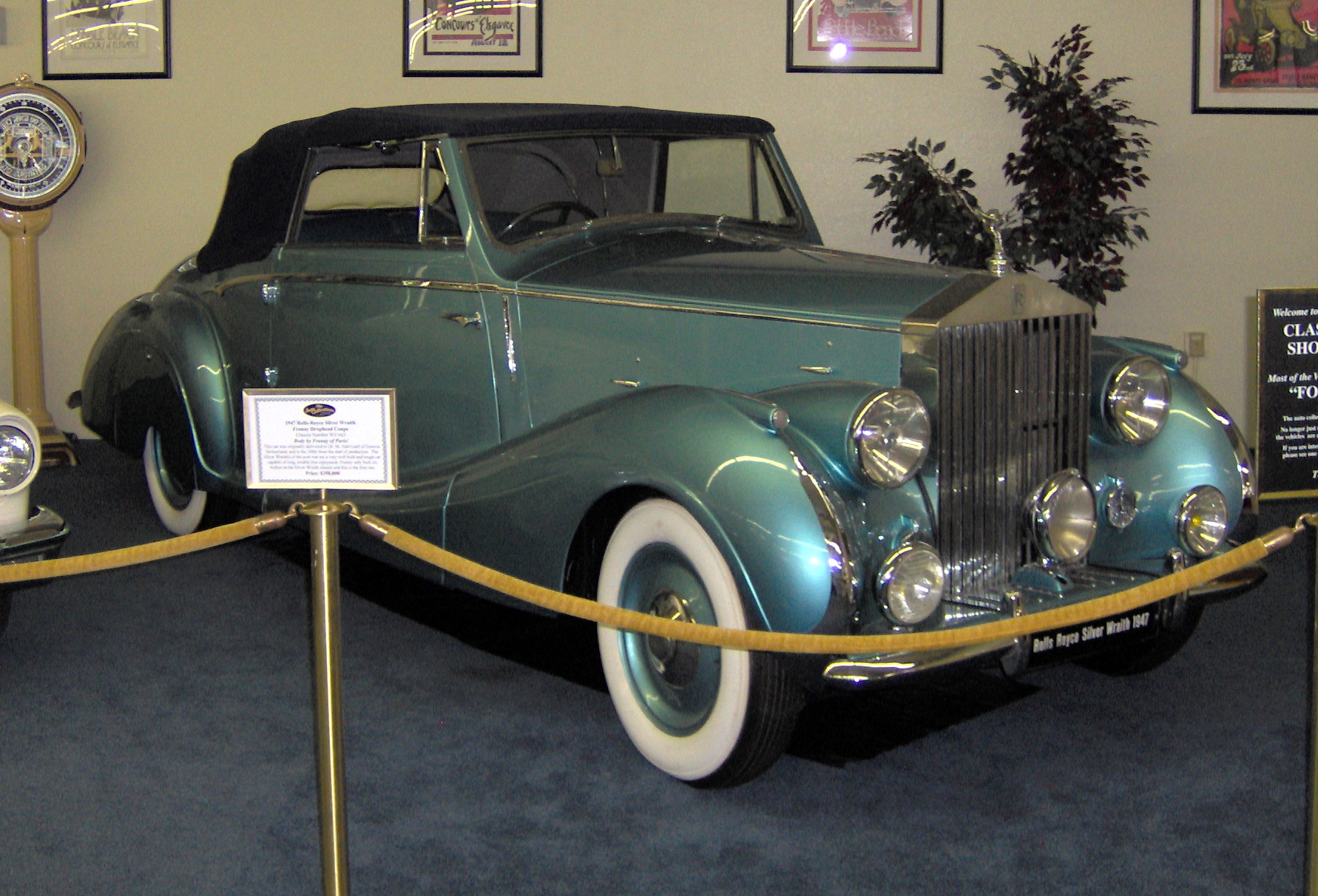 1947 Rolls-Royce Silver Wraith Franay Drophead Coupe